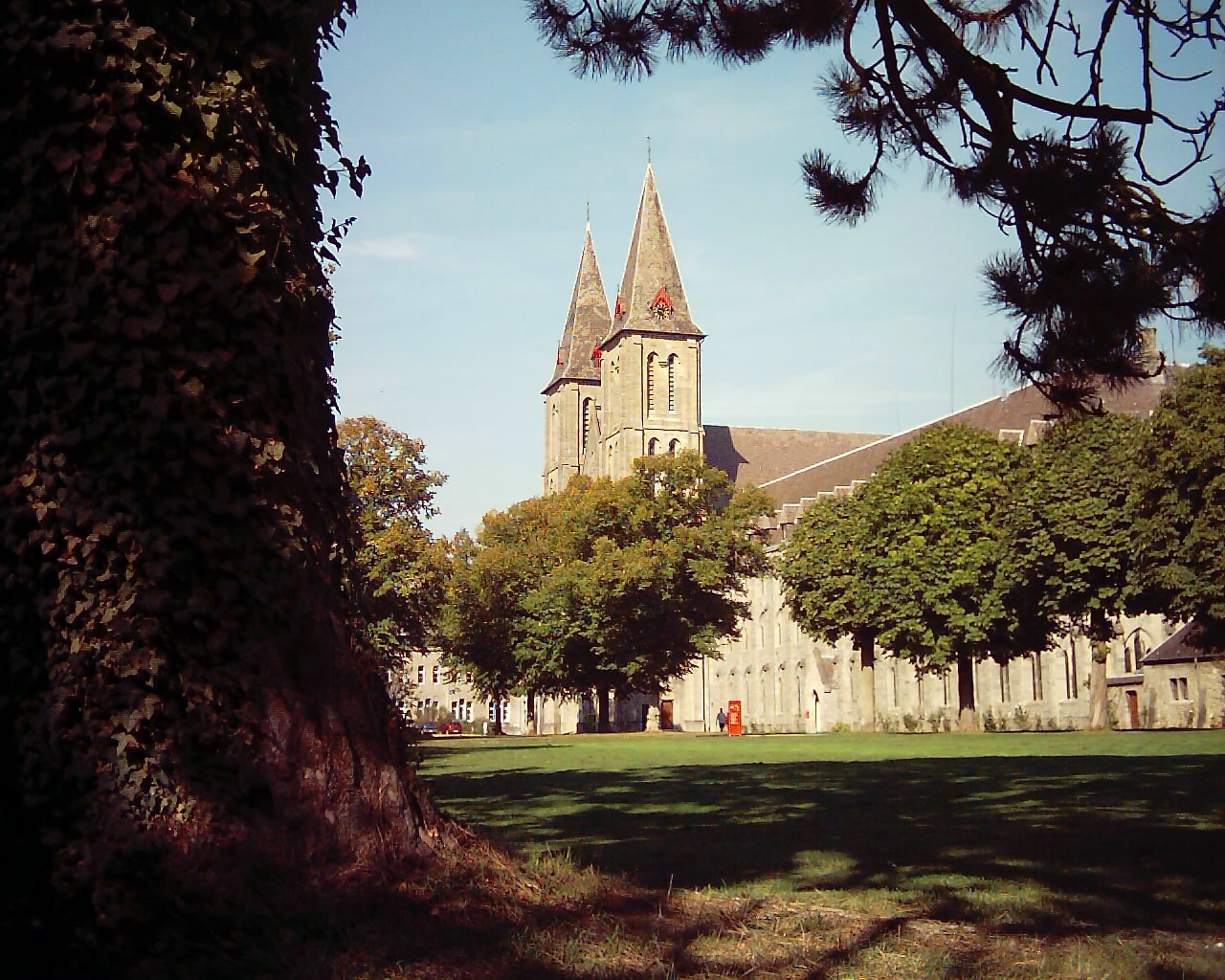 Abby of Maredsous (Denée)